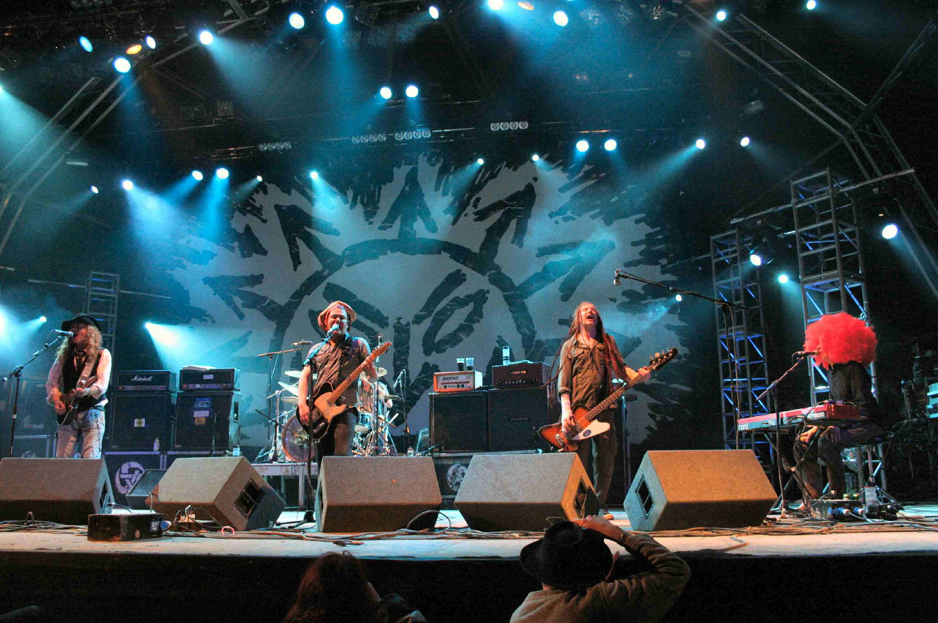 The Levellers